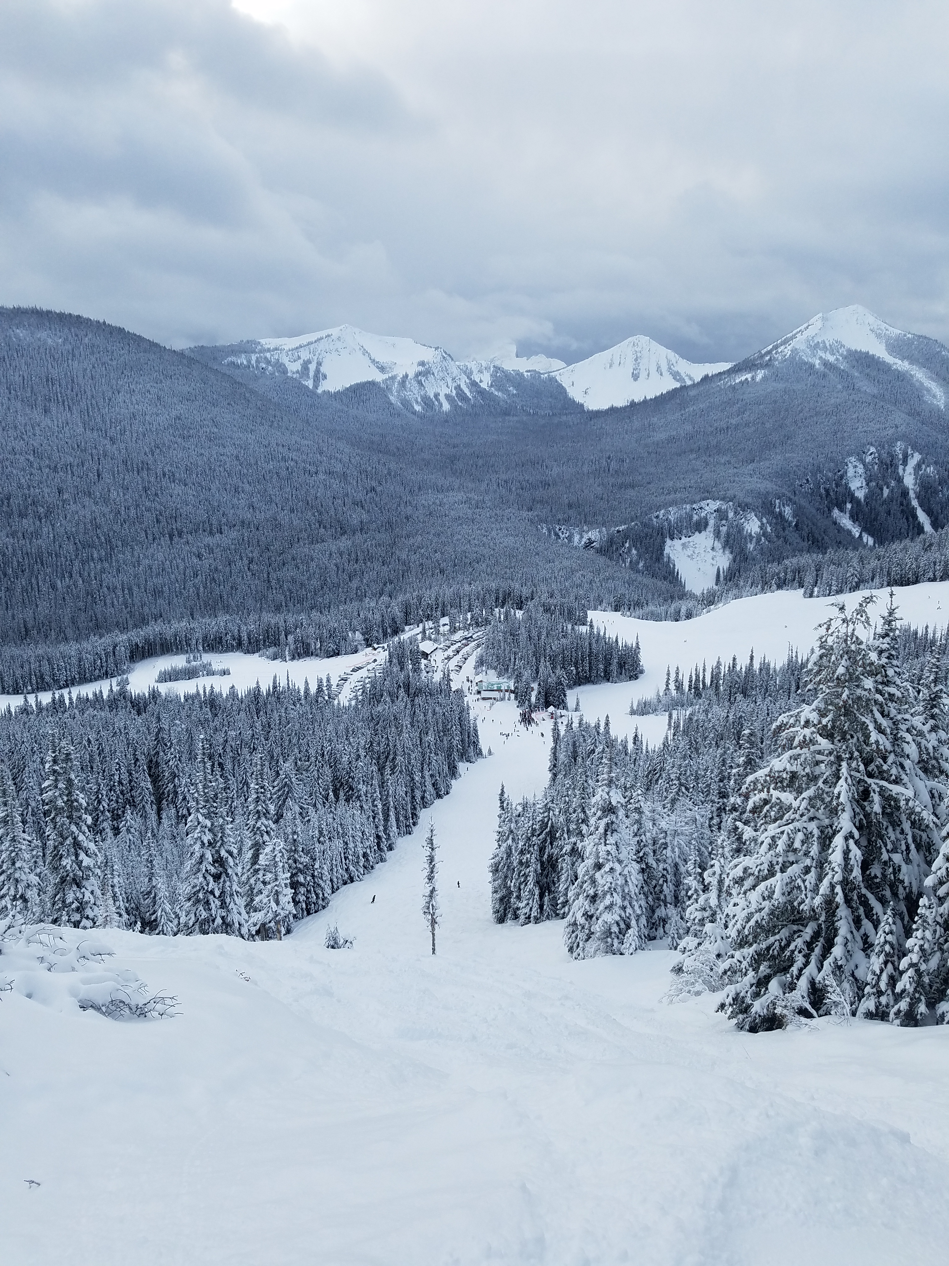 Manning Park Resort has the Gibson Pass Ski Hill, seen here from a run on the former (now removed) Orange Chair.